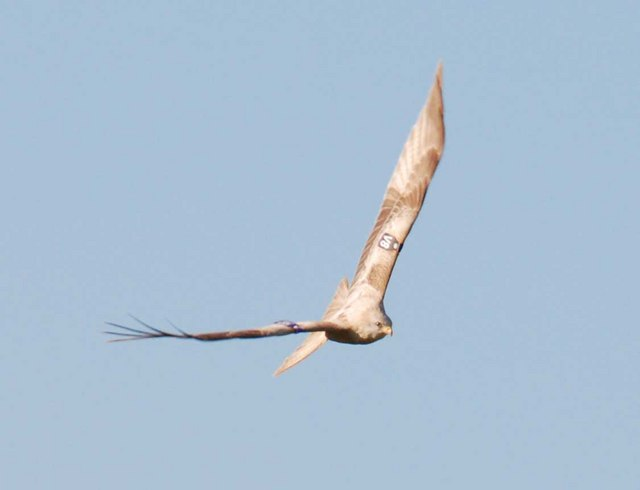 Leucistic Red Kite in Flight This unusual colour is referred to as leucistic, unlike albino, some pigment is still present. This particular bird has remarkably come all the way from Wales. She has visited the Kite feeding station here in Dumfries and Galloway a number of times. She wasn't quite as bold as the other birds and kept her distance, this image was taken from Ballymack farm using a long lens!